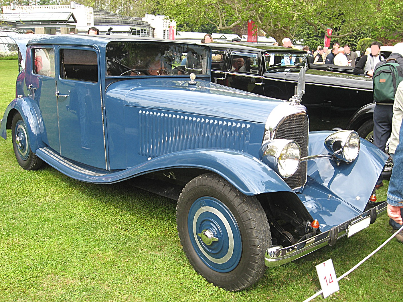 Subject:Voisin C24 (1934) Date:April 27th, 2008 Event:Concorso d’Eleganza”Villa d’Este” 2008 Place/Country: Cernobbio (CO), Italy I release all rights in the public domain.